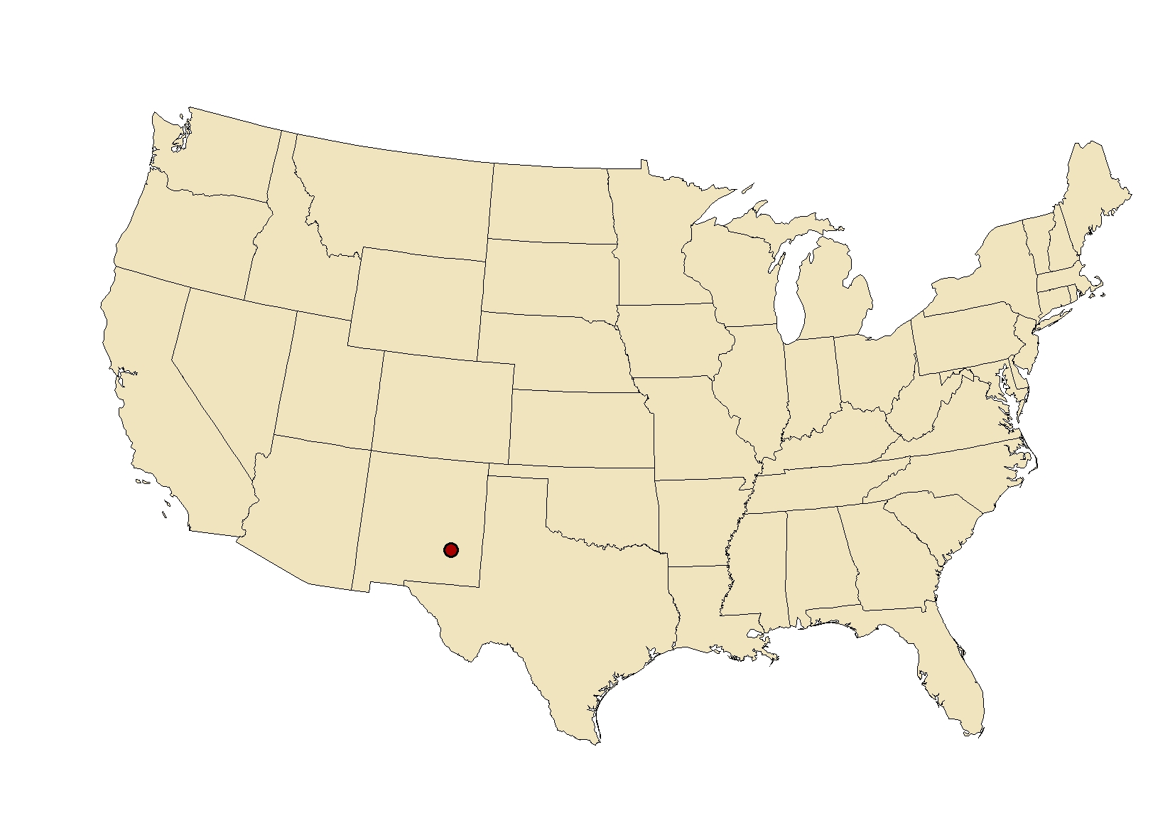 Location map of Roswell, New Mexico.